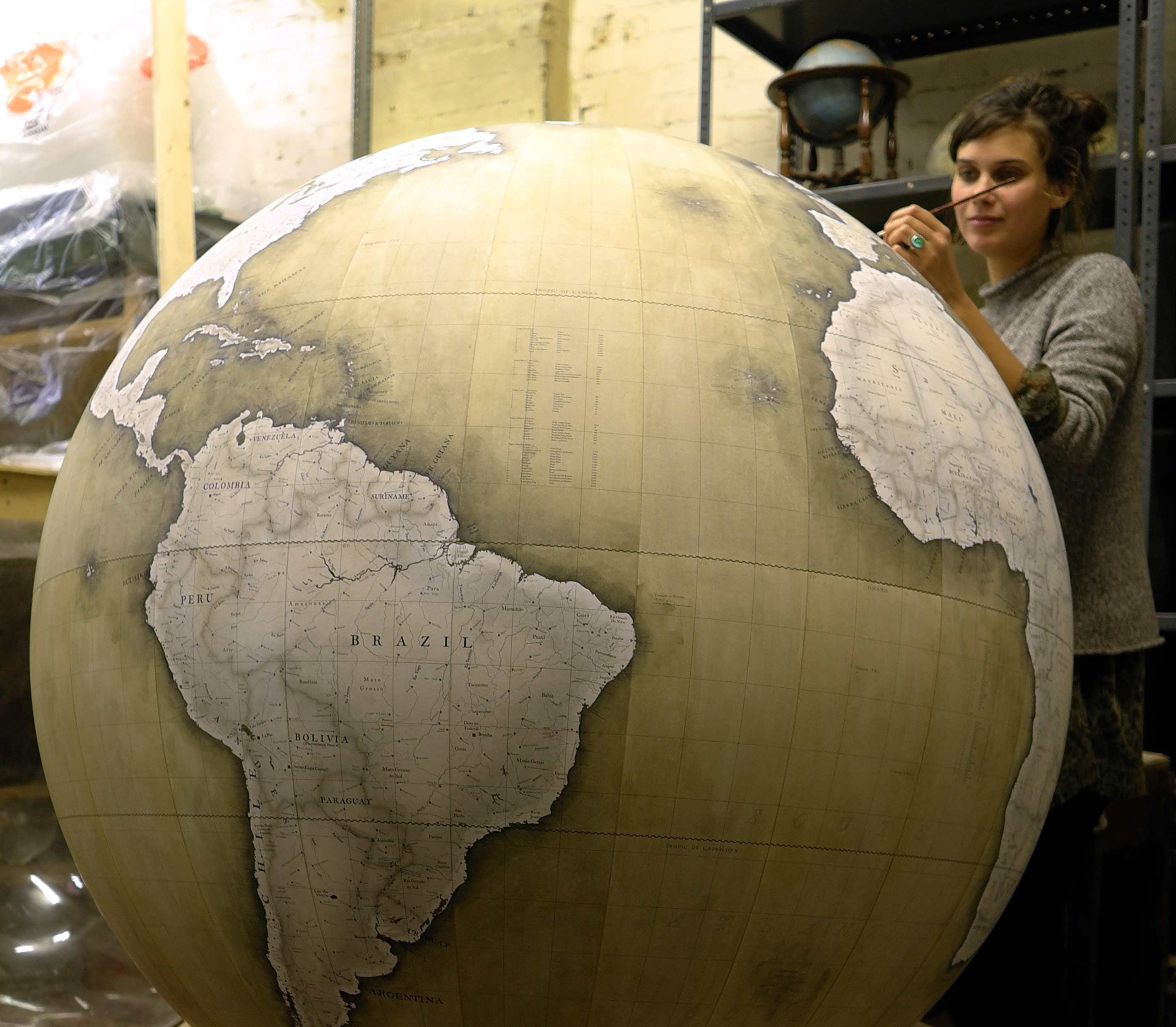 IMage of Bellerby & Co globemakers Churchill globe in production